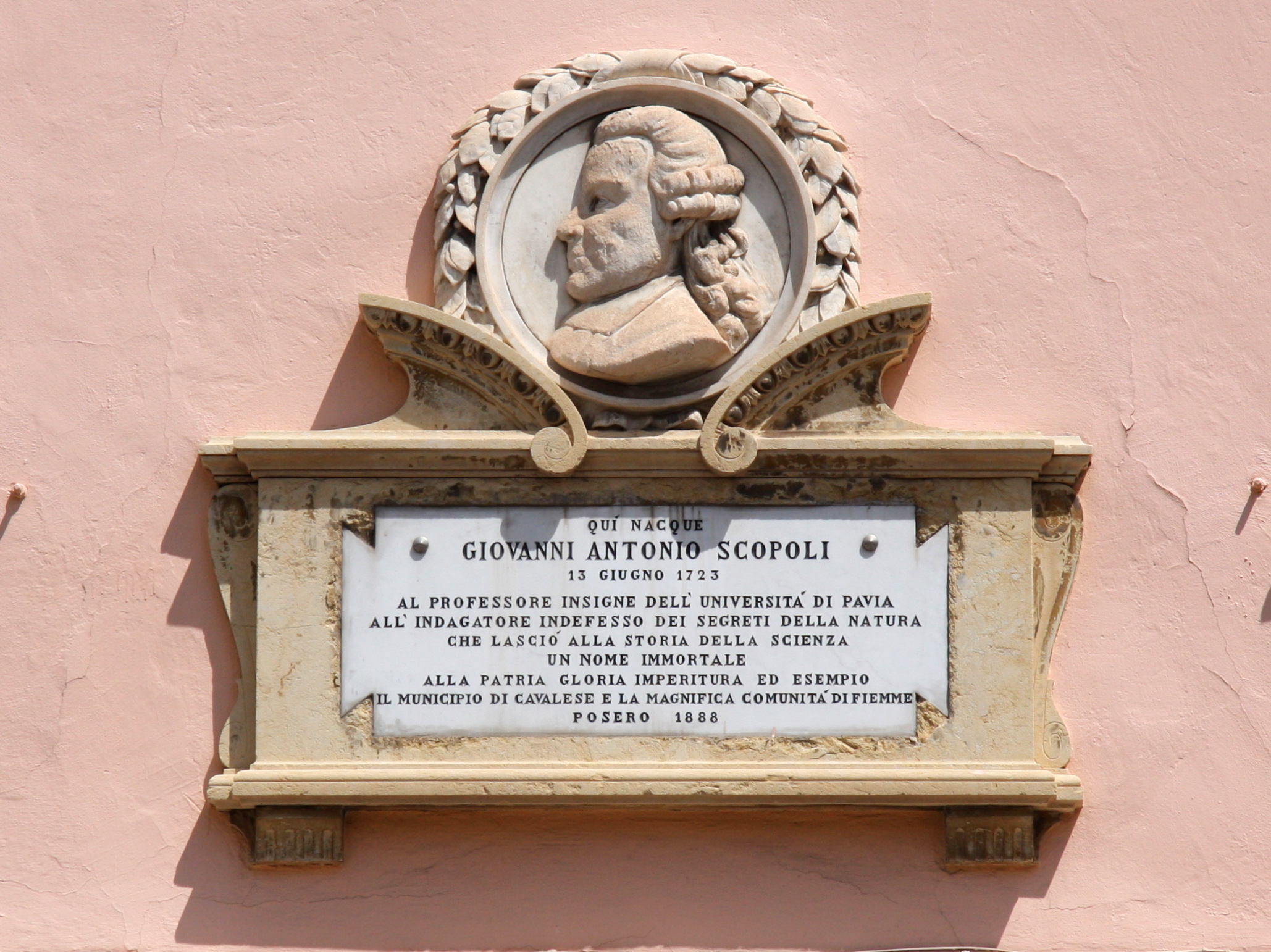 Memorial plaque to Giovanni Antonio Scopoli in Cavalese (TN) town centerSlovenščina: Spominska plošča Giovanniju Antoniu Scopoliju na glavnem trgu v kraju Cavalese, Trentino, Italija